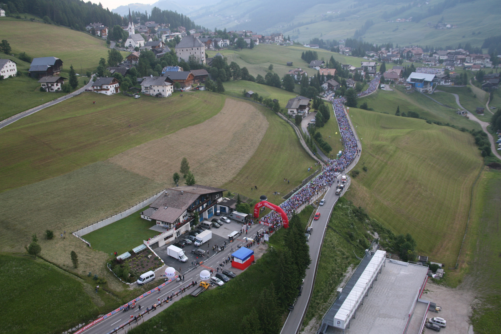 Maratona dles Dolomites 2008 edition start in La Illa - Picture provided by Maratona dles Dolomites Committee